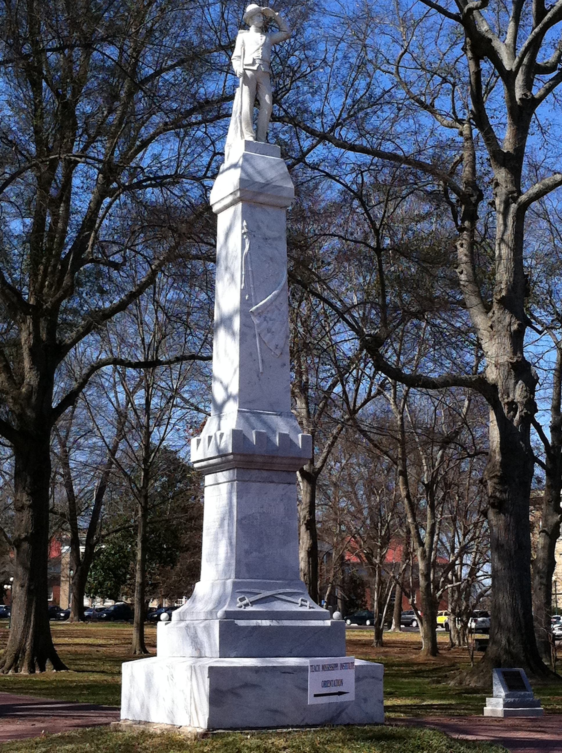 The Confederate Monument at the entrance of University Circle on the campus of the University of Mississippi in Oxford, Mississippi.